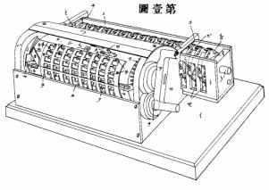 Schematic of Yazu Arithmometer, Fig 1, patented in 1903